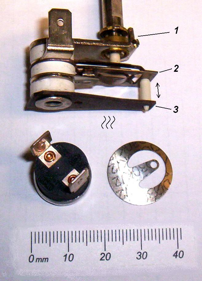 Bimetal switches, upper for adjustable temperatures, left for fix temperature and right a single bimetal disk with jumping behaviour. temp. adj. switch bimetal, mounted close to the hot surface to be temperature-detected